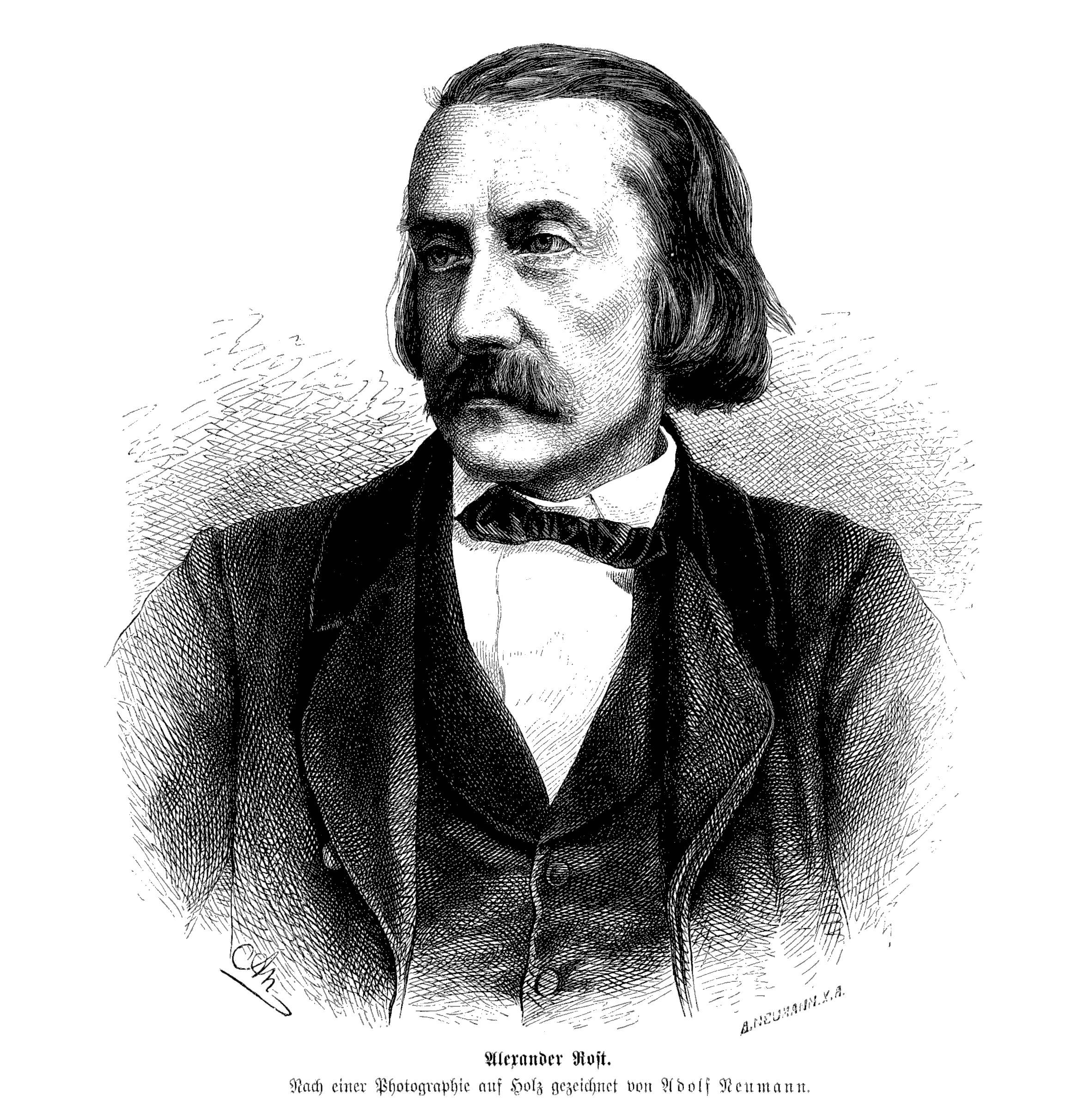 caption: "Alexander Rost. Nach einer Photographie auf Holz gezeichnet von Adolf Neumann."